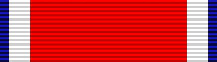 New York National Guard Conspicuous Service Cross